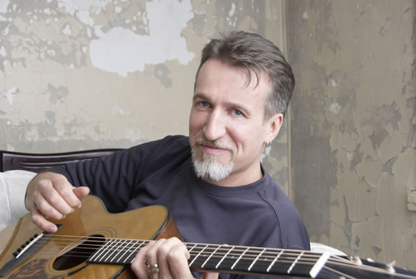 Steve Bell Juno Award Winning Canadian Musician